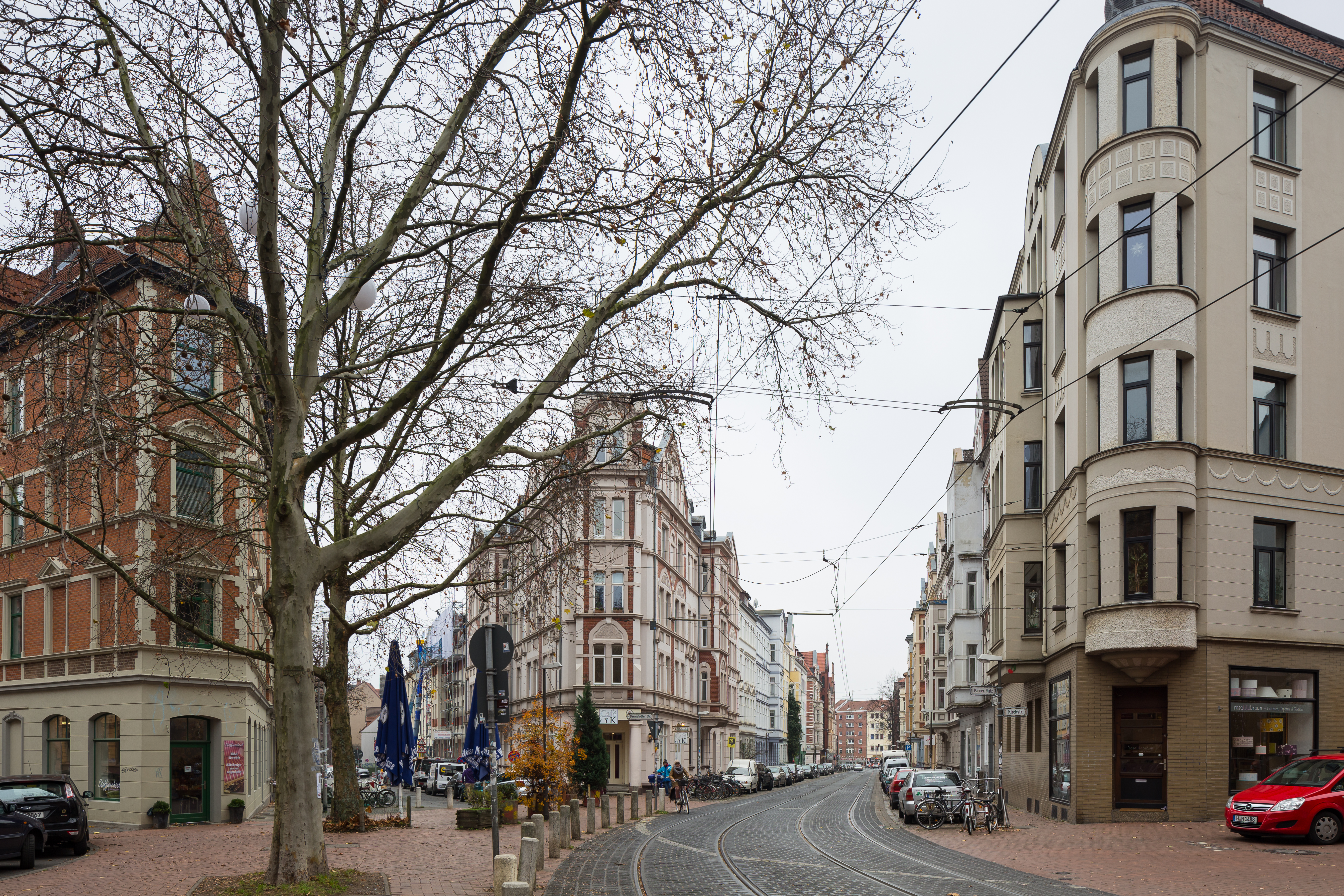 Pariser Platz square in Linden-Mitte district of Hannover, Germany.